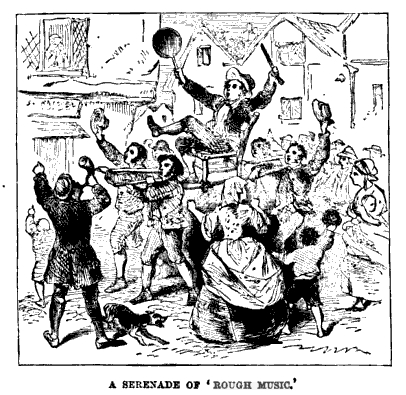 Illustration of rough music